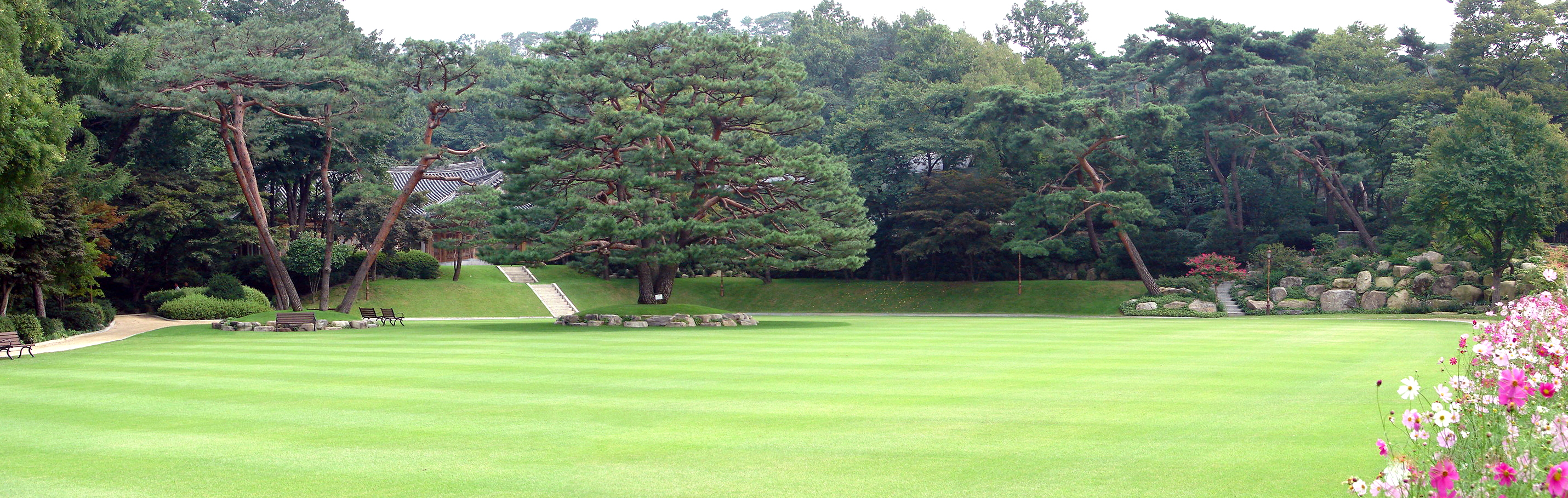 South Korean presidential residence garden, Blue House (Cheongwadae) in Seoul South Korea